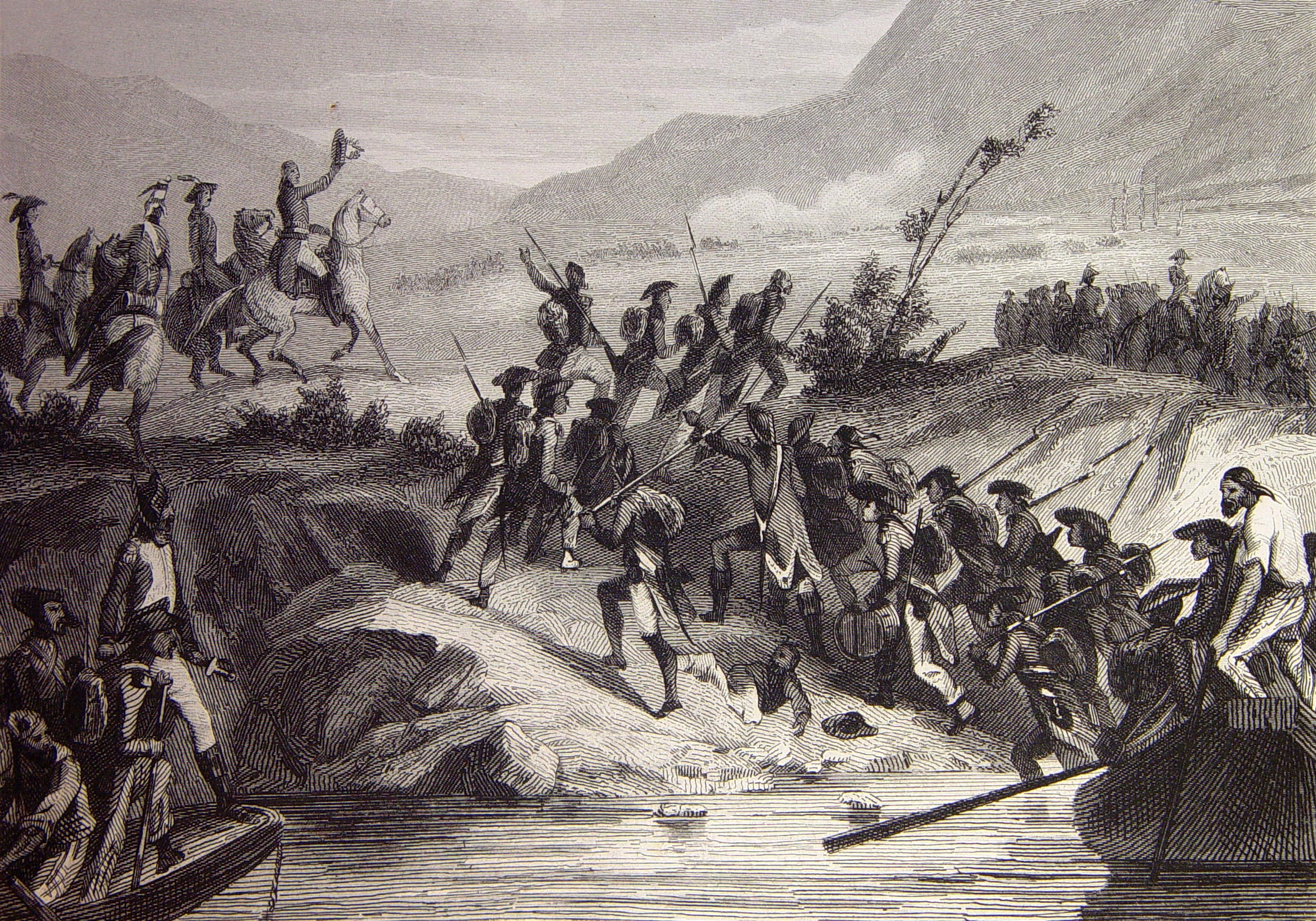 Barcelo disembarks in Africa engraving by A. Roca published in Las glorias nacionales : grande historia universal de todos los reinos, provincias, islas y colonias de la Monarquía Española, desde los tiempos primitivos hasta el año de 1852 (Fernando Patxot y Ferrer, 1852). Original title "Barcelo desembarca en Africa"